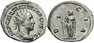 Traianus Decius. 249-251 AD. AR Antoninianus (4.99 g). IMP C M Q TRAIANVS DECIVS AVG, radiate, draped, and cuirassed bust right D-ACIA, Dacia standing left, holding vertical staff with ass's head. RIC IV 12b; Hunter 7; RSC 16. EF.